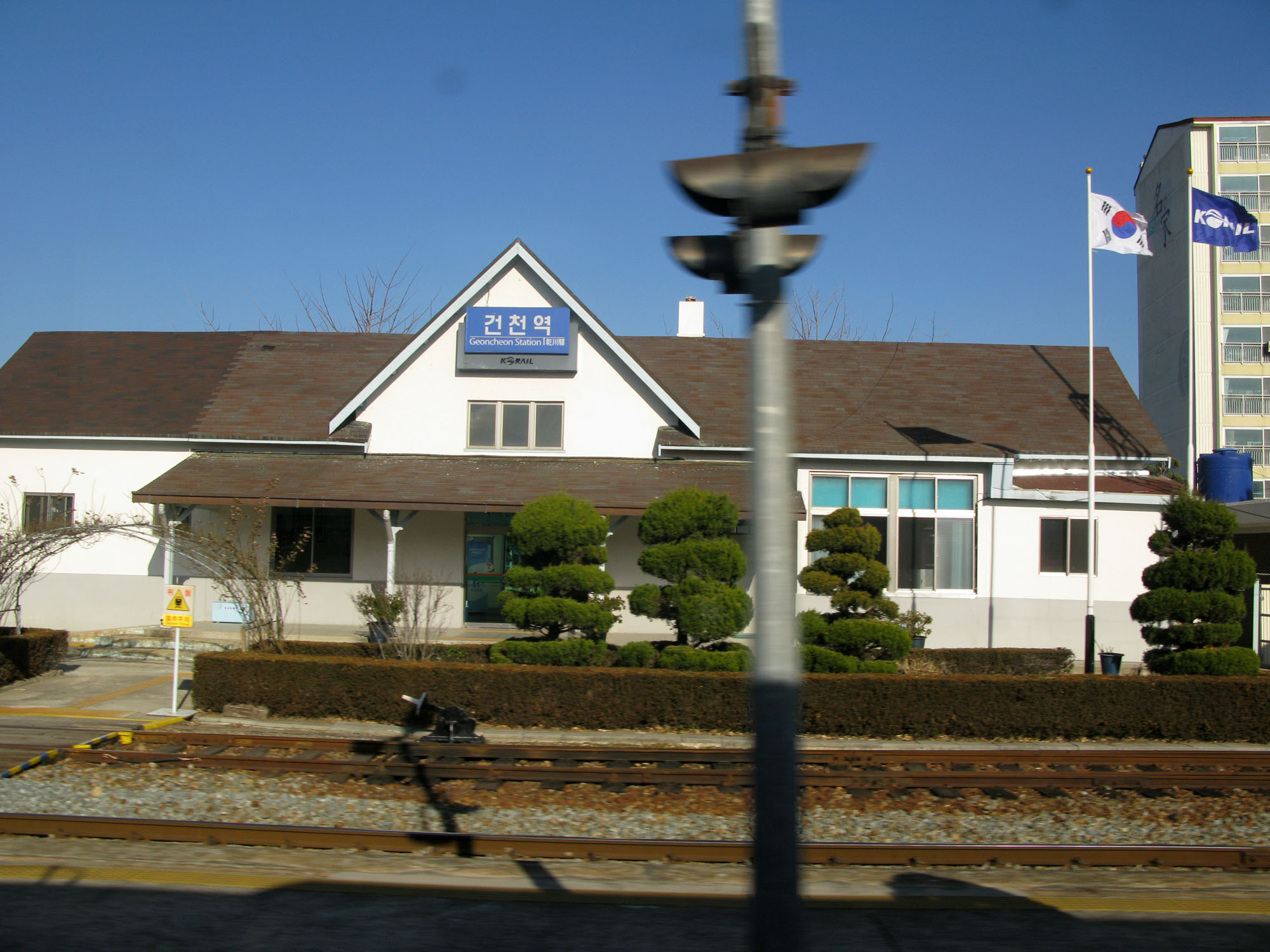 Jungang Line Geoncheon Station